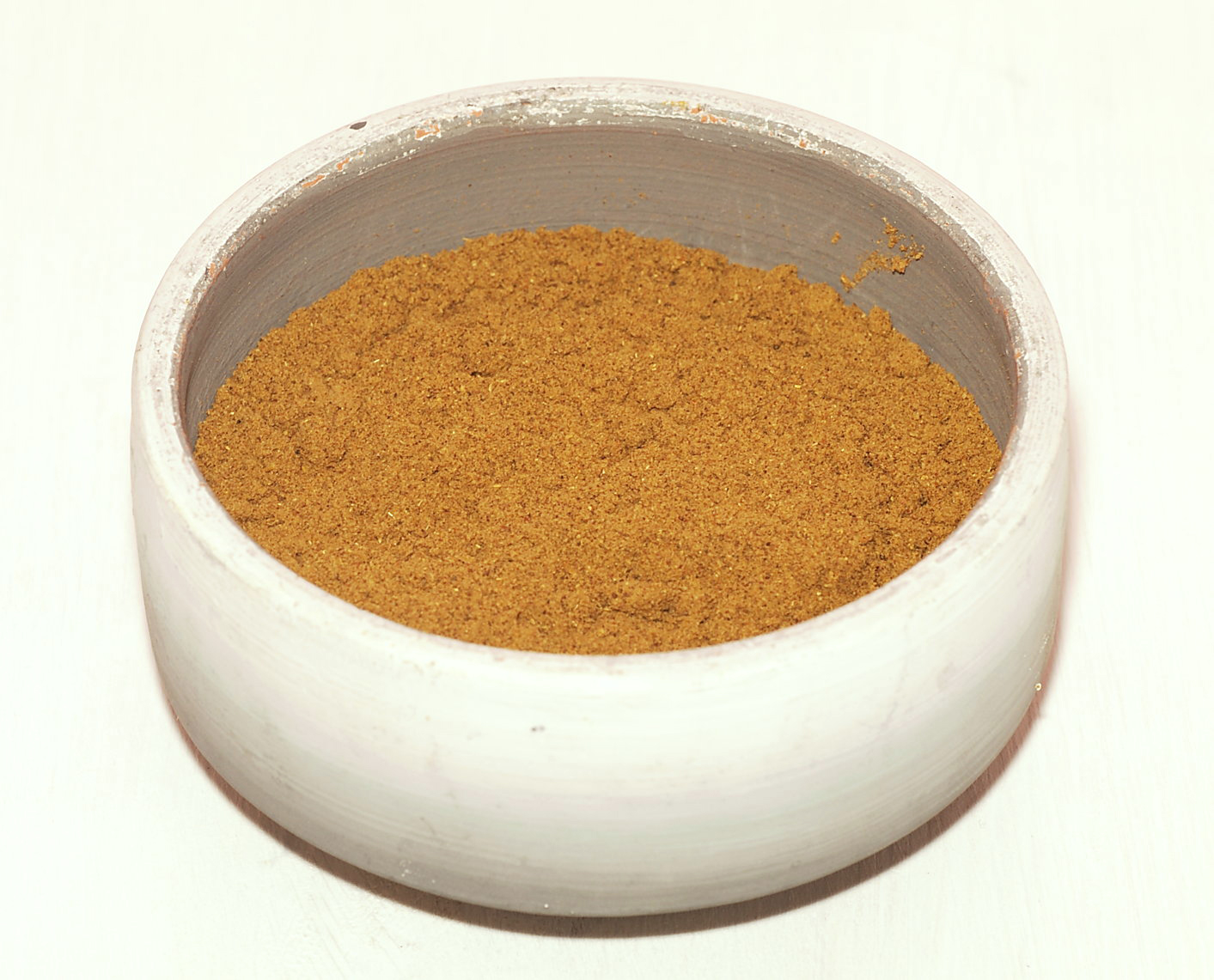 Ras el hanout from Morocco.